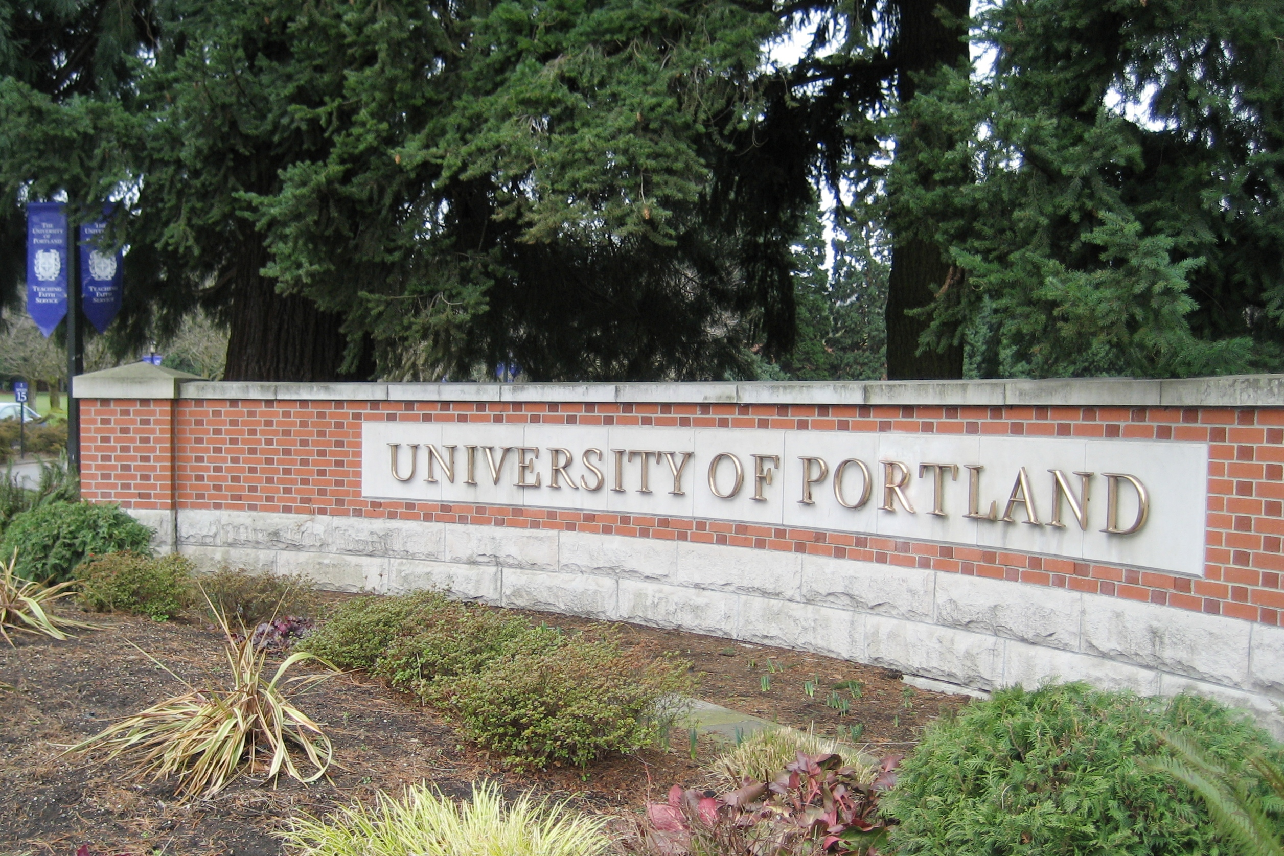 Entrance at University of Portland in Portland, Oregon, USA